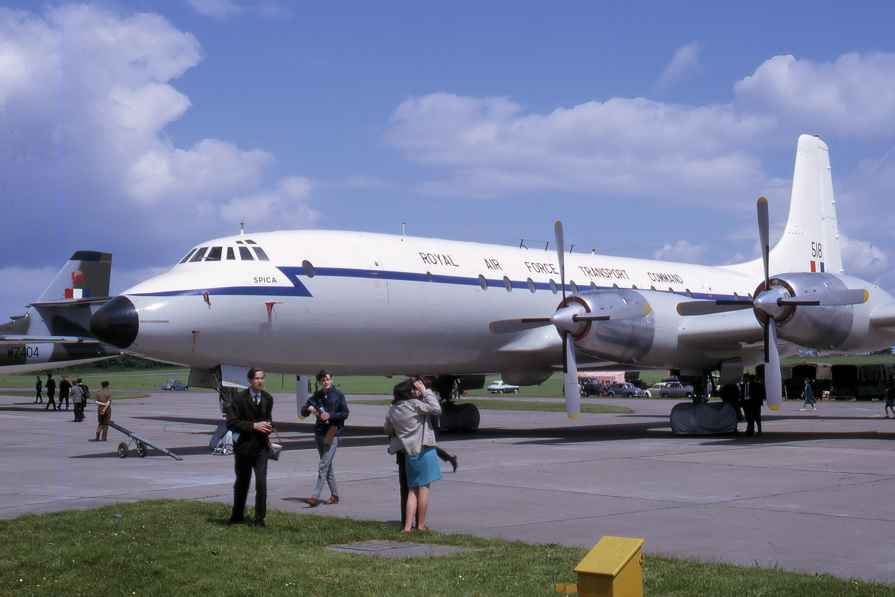 Royal Air Force Bristol Britannia “Spica“, serial XM518. Scrapped in 1978.